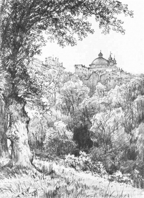 Ariccia near Rome, study